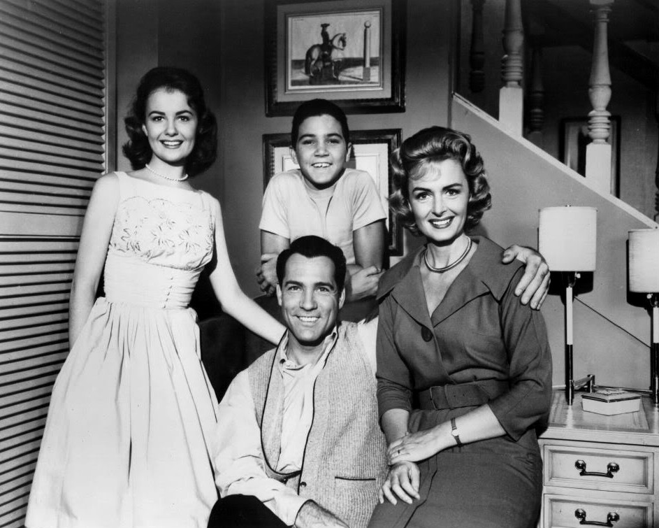 Cast photo from the television program The Donna Reed Show. Standing-Shelley Fabares and Paul Petersen. Seated-Carl Betz and Donna Reed.